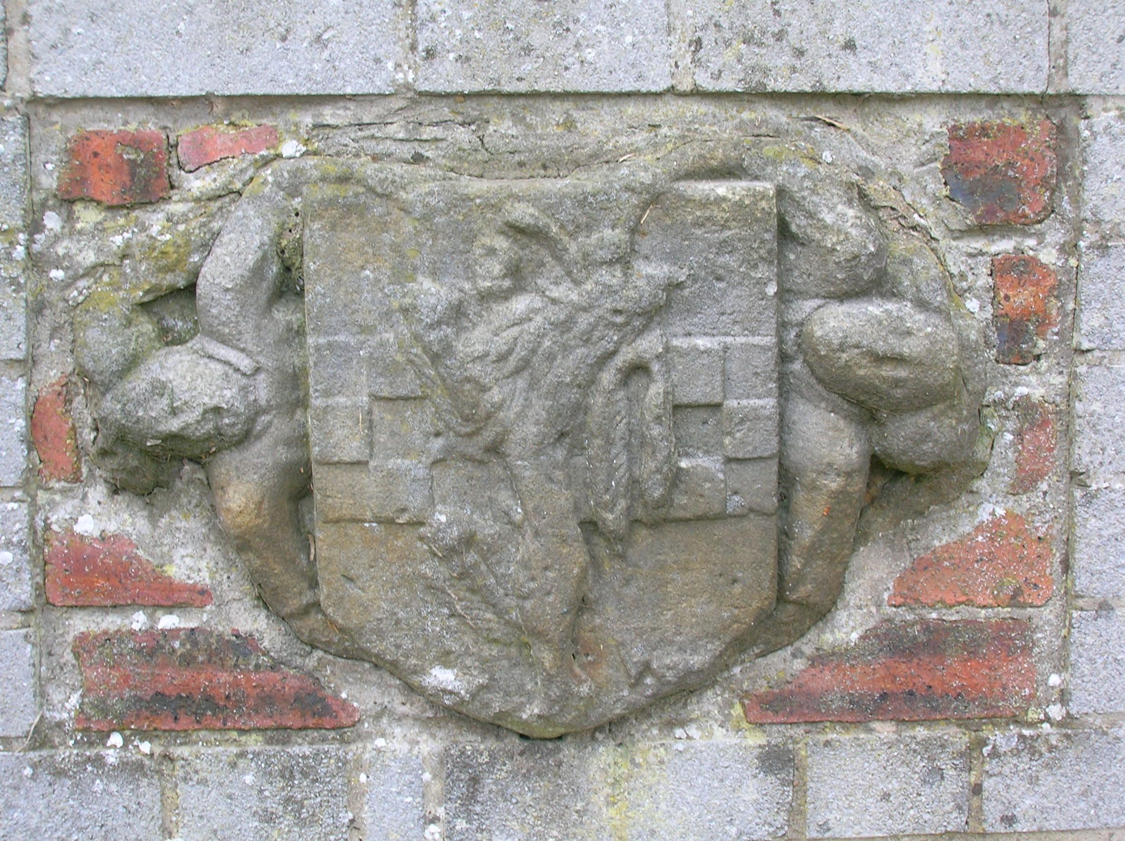 Wallace and Lindsay conjoined coat of arms, Craigie Mains Farm, South Ayrshire, Scotland.